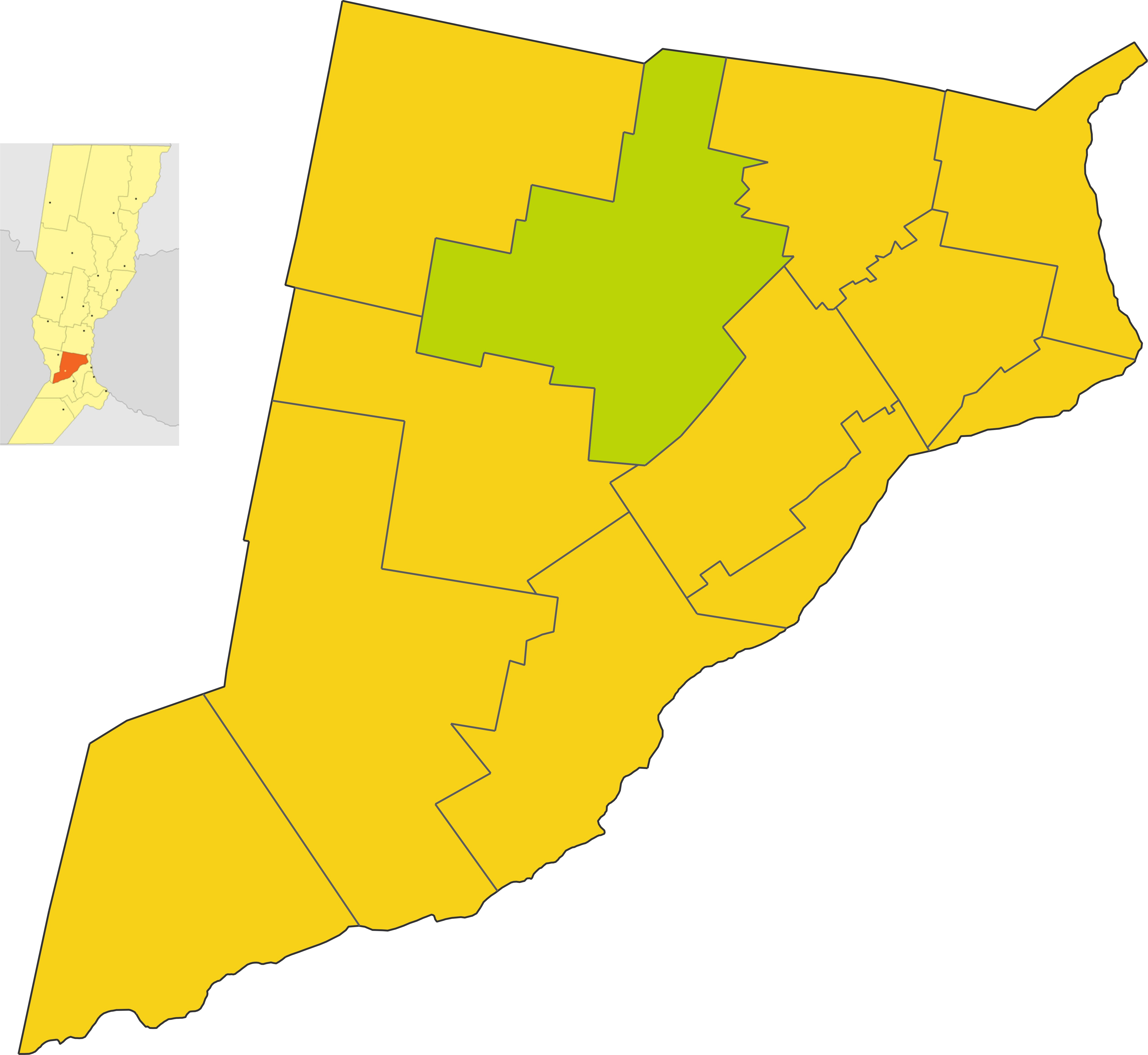 Map of the municipio de Totoras in Iriondo department, Santa Fe province, Argentina